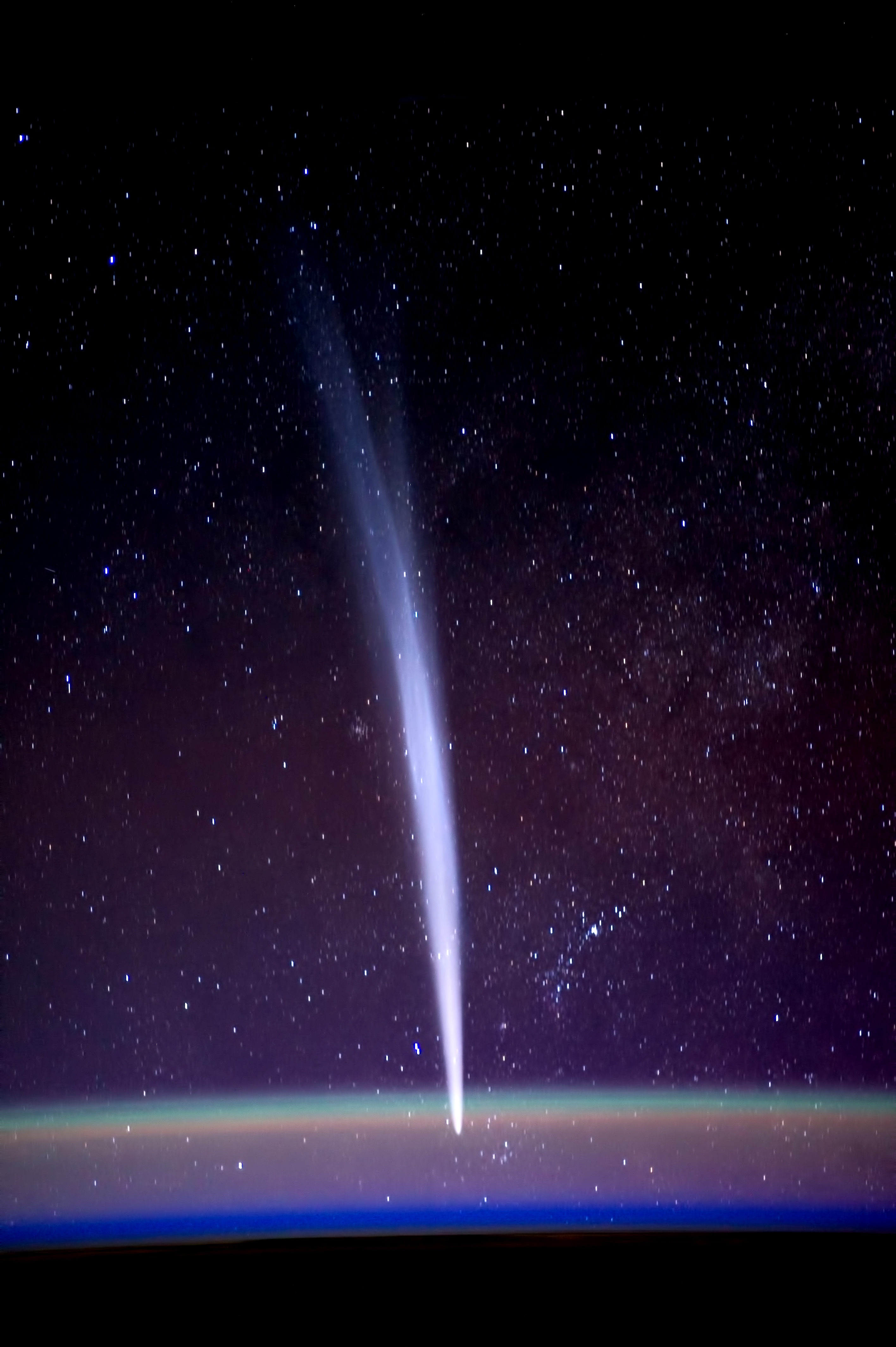 Comet Lovejoy is visible near Earth's horizon in this nighttime image photographed by NASA astronaut Dan Burbank, Expedition 30 commander, onboard the International Space Station on Dec. 22, 2011.